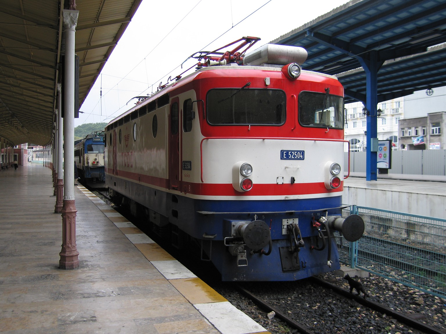 Locomotive E 52504 of Turkish TCDD. Sirkeci train station Istanbul.